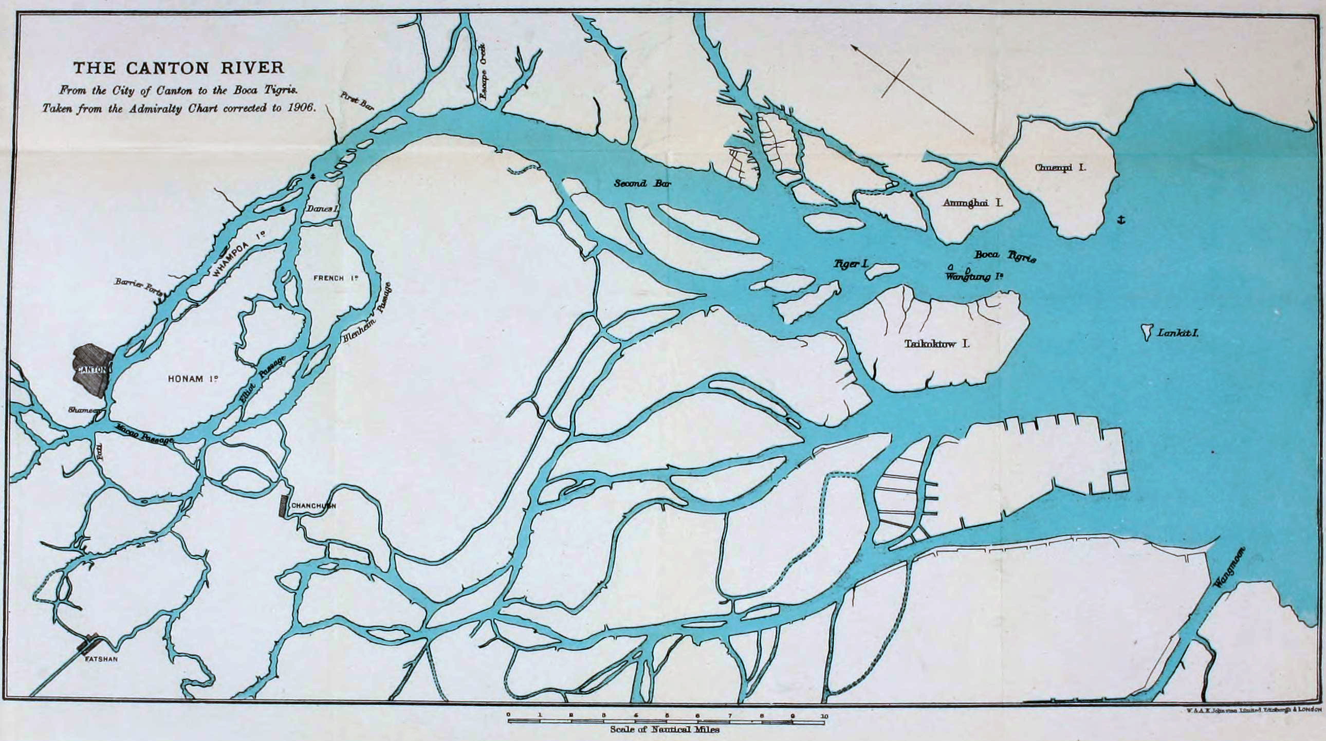 Map of the city of Canton to the Bocca Tigris.